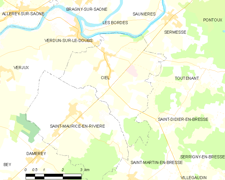 Map of French municipality